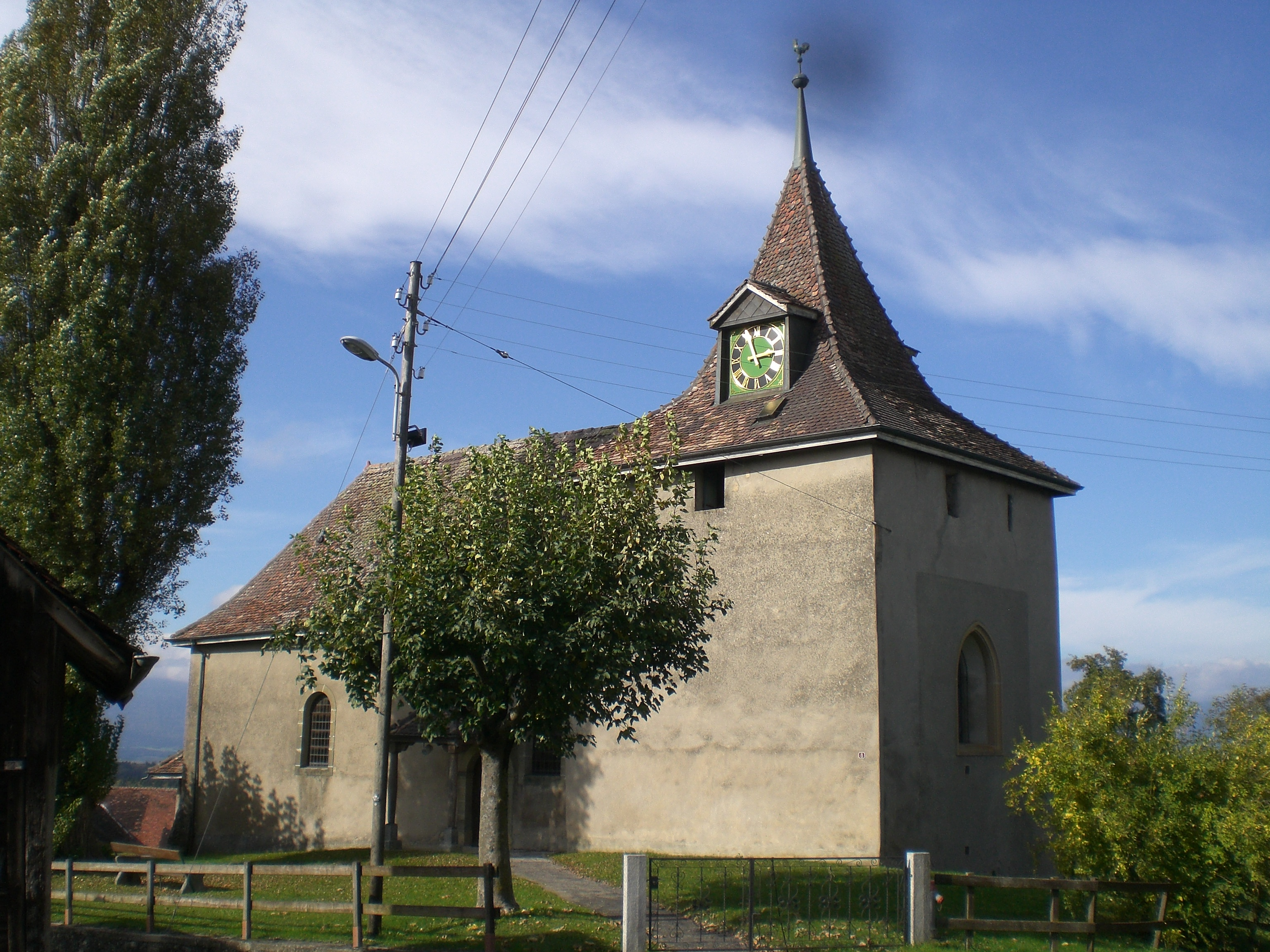 Church in Vuarrens, canton of Vaud, Switzerland